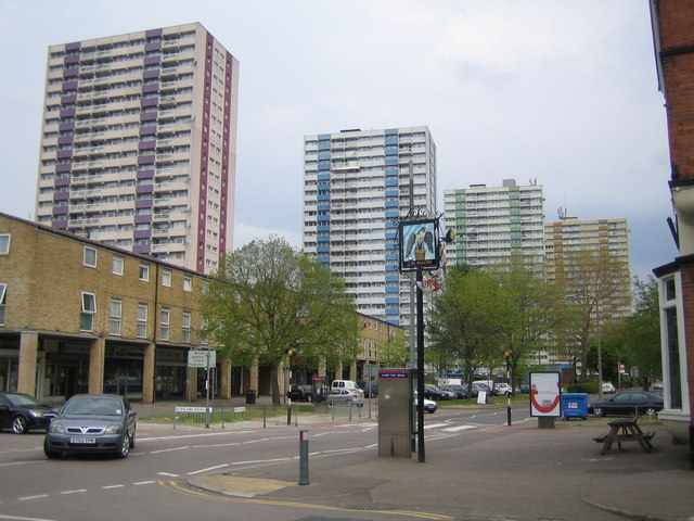 Ponders End: Alma Road estate